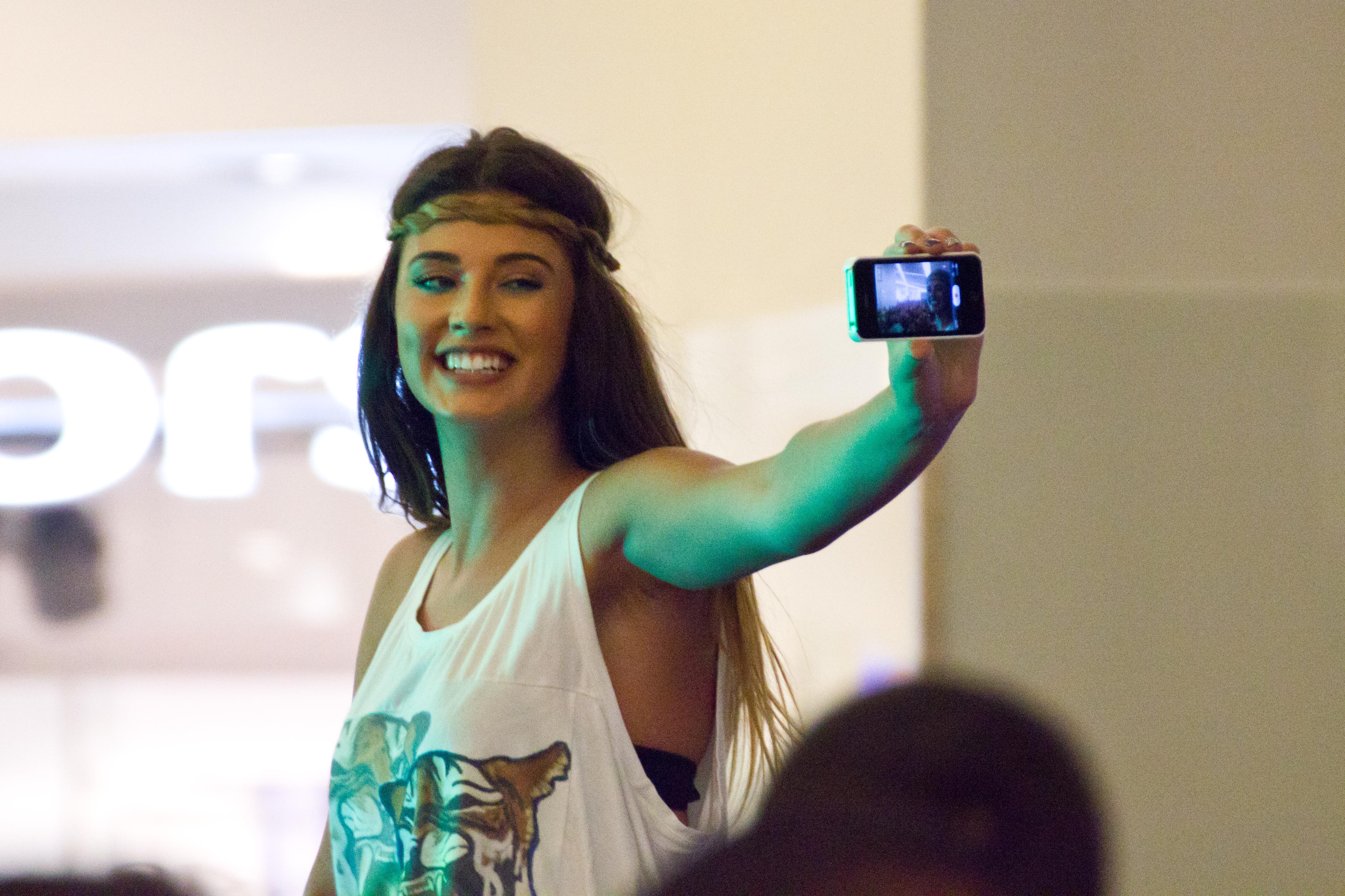 Romanian singer Antonia Iacobescu.